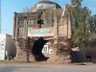 qadirabad historycal place